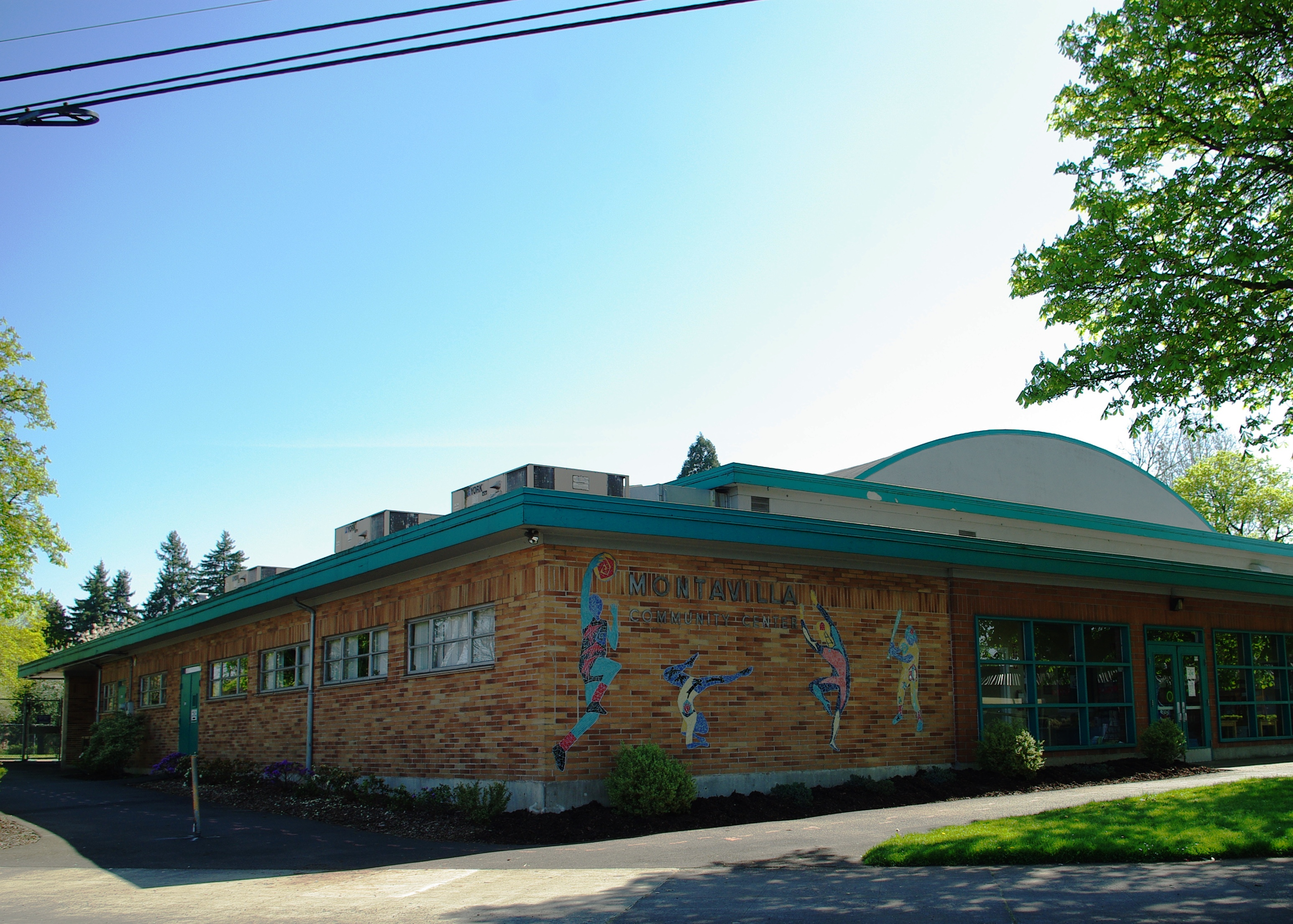 Montavilla Community Center at Montavilla Park in Southeast Portland, Oregon.